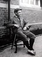 Harald Hilton, winner British Open 1897